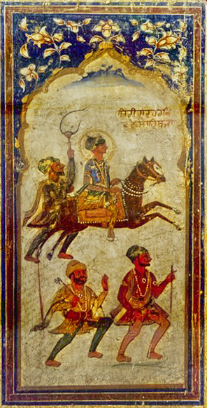 A fresco of Guru Har Krishan found at Gurdwara Pothimala built by the descendants of Guru Ram Das and Prithi Chand in 1745.